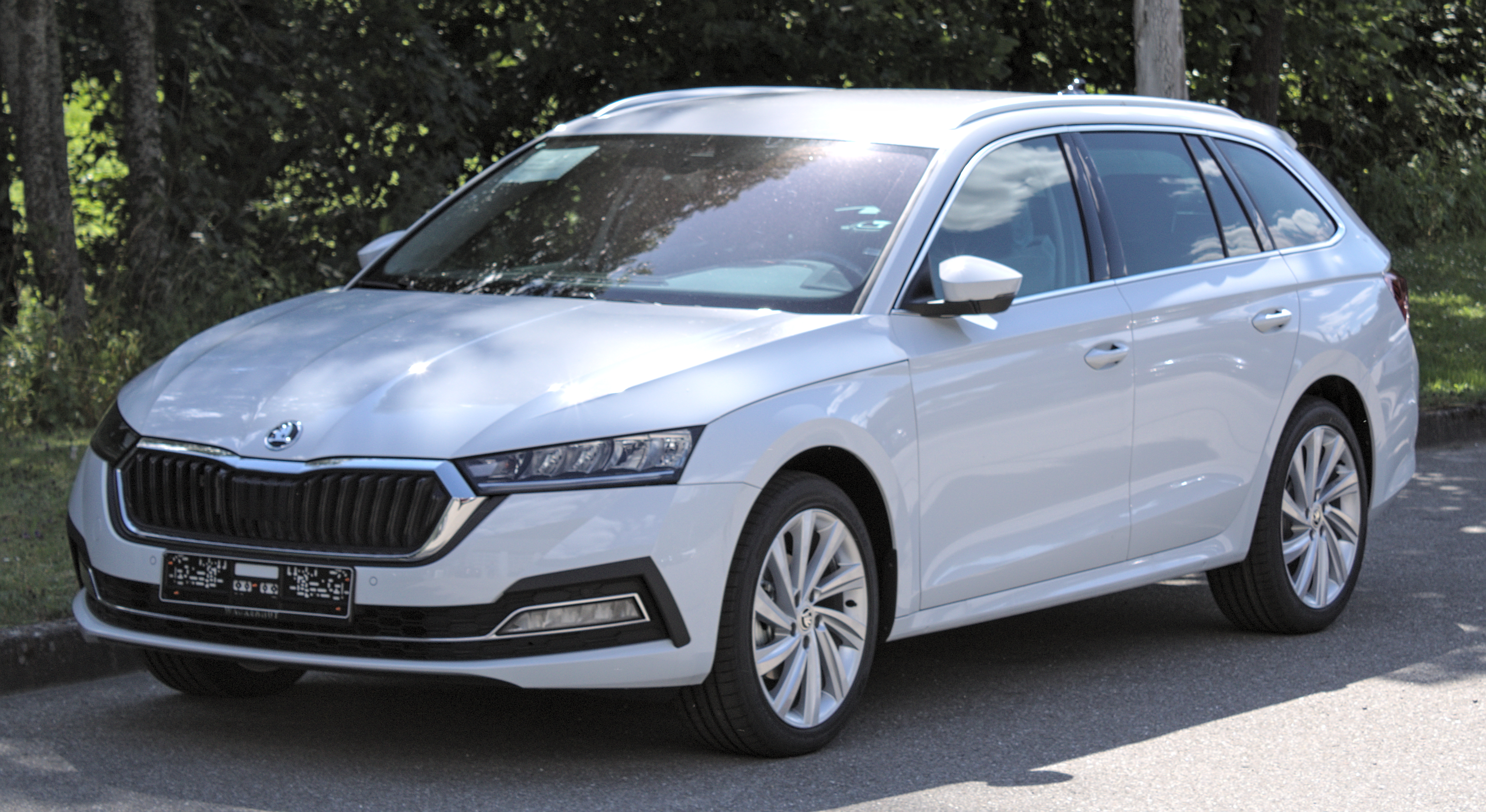 Skoda_Octavia_IV_Combi in Nagold